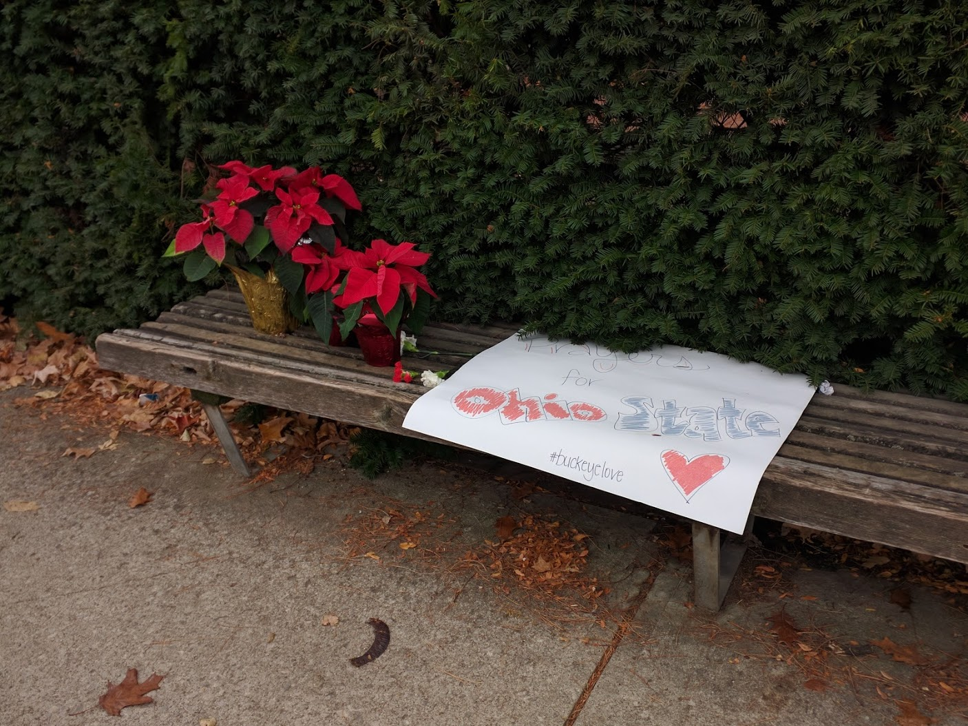 Pointsettias and a sign left outside of Watts Hall in dedication of the 2016 Ohio State University attack.